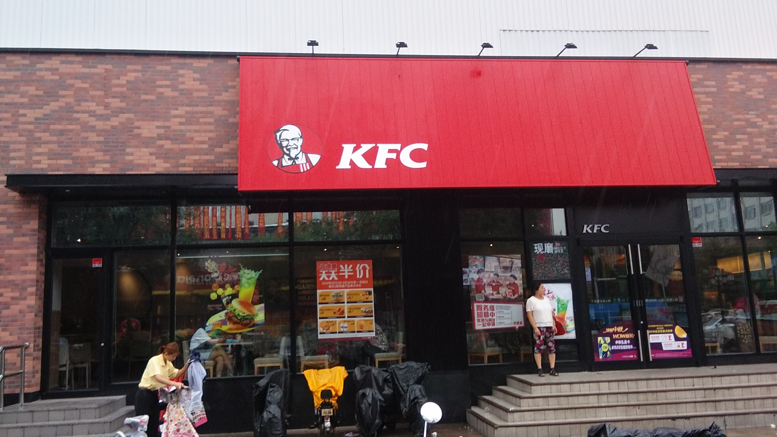 KFC (Bohai Road, Shougang)